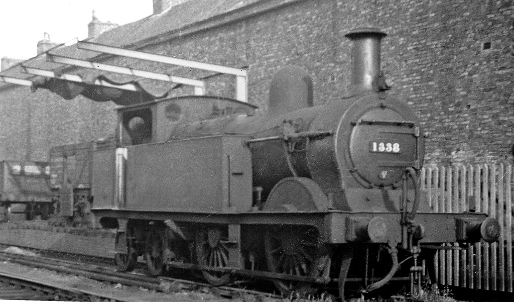 Tewkesbury Engine Shed, with a Midland 0-4-4T. View eastward, towards Tewkesbury Junction and Ashchurch. Ex-Midland Johnson/Deeley 1P 0-4-4T No. 1338 is beside the makeshift 'coaling stage'. See also SO8932 : Tewkesbury Engine Shed, with a Midland 0-6-0 prominent.